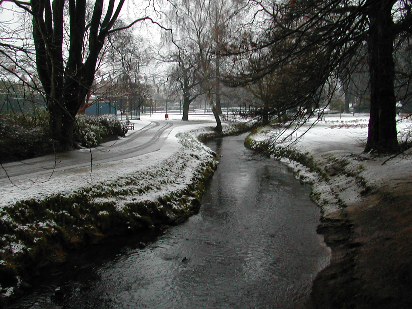 Roath Brook flowing through the southern half of Roath Park in the snow. Cardiff, 12 March 2004.